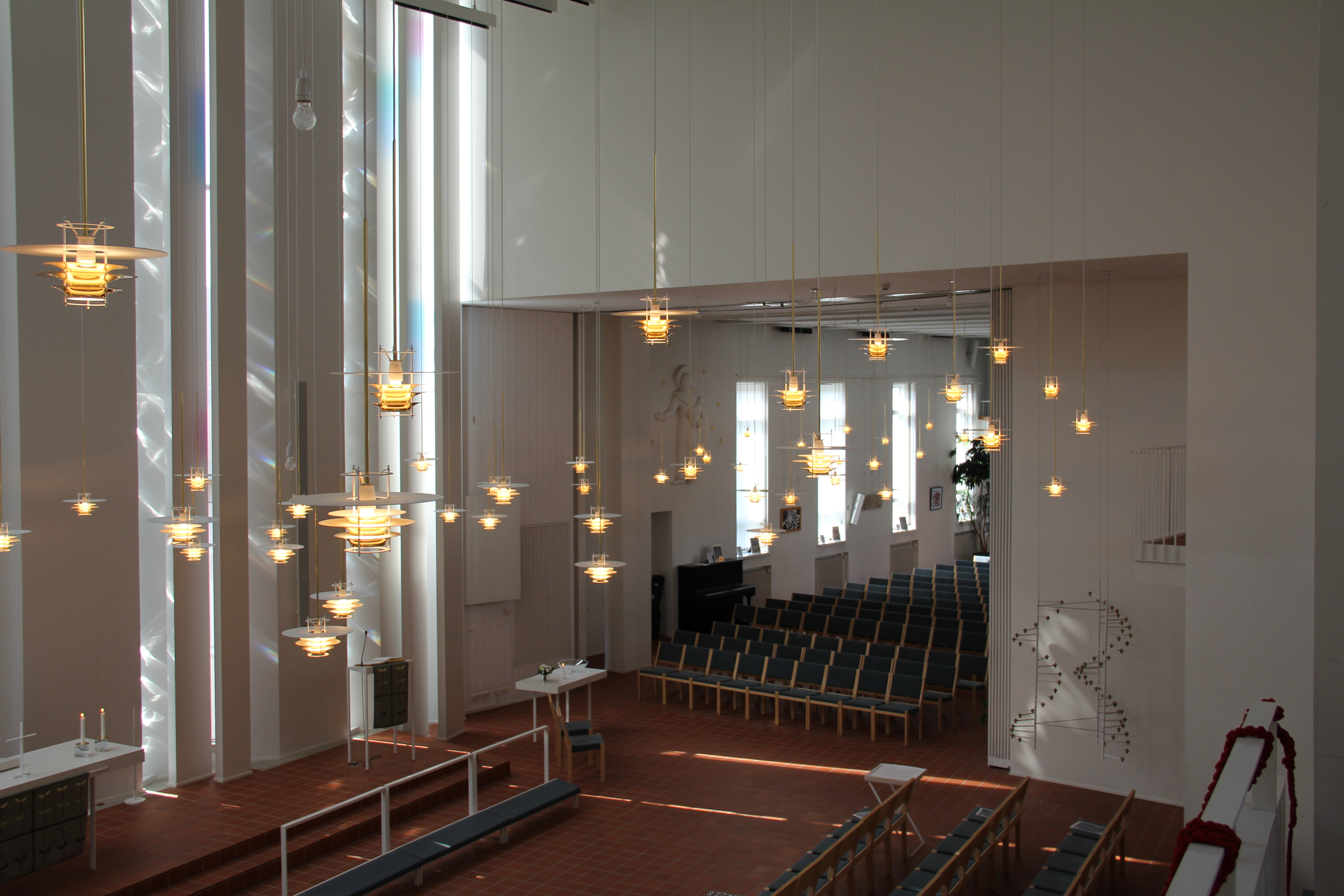 Church of the Good Shepherd in Western Pakila, Helsinki, Finland. -The oldest part, Pakila Church 1950 by architect Yrjö Vaskinen. Extension and restoration in 2002 by architect Juha Leiviskä. - Original church hall of Pakila church seen from church hall balcony of 2002 extension. Backgroud wall relief The Good Shepherd by sculptor Yrjö Rosola (1949), now re-cast and relocated.